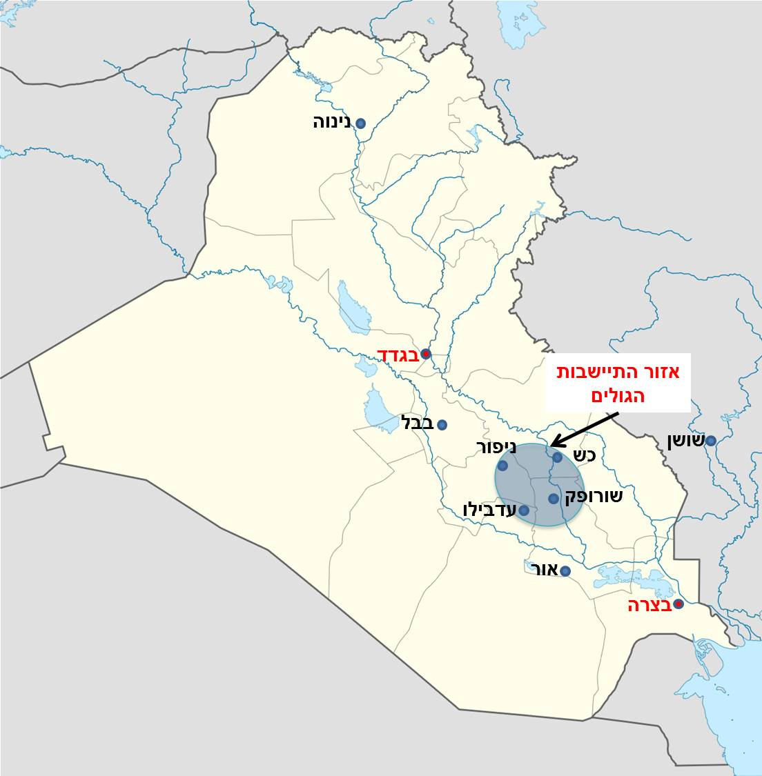 The estimated area from which the al-Yahudu tablets are from and the estimated area of the Judean settlements in Babylon 6th-5th century BCE.